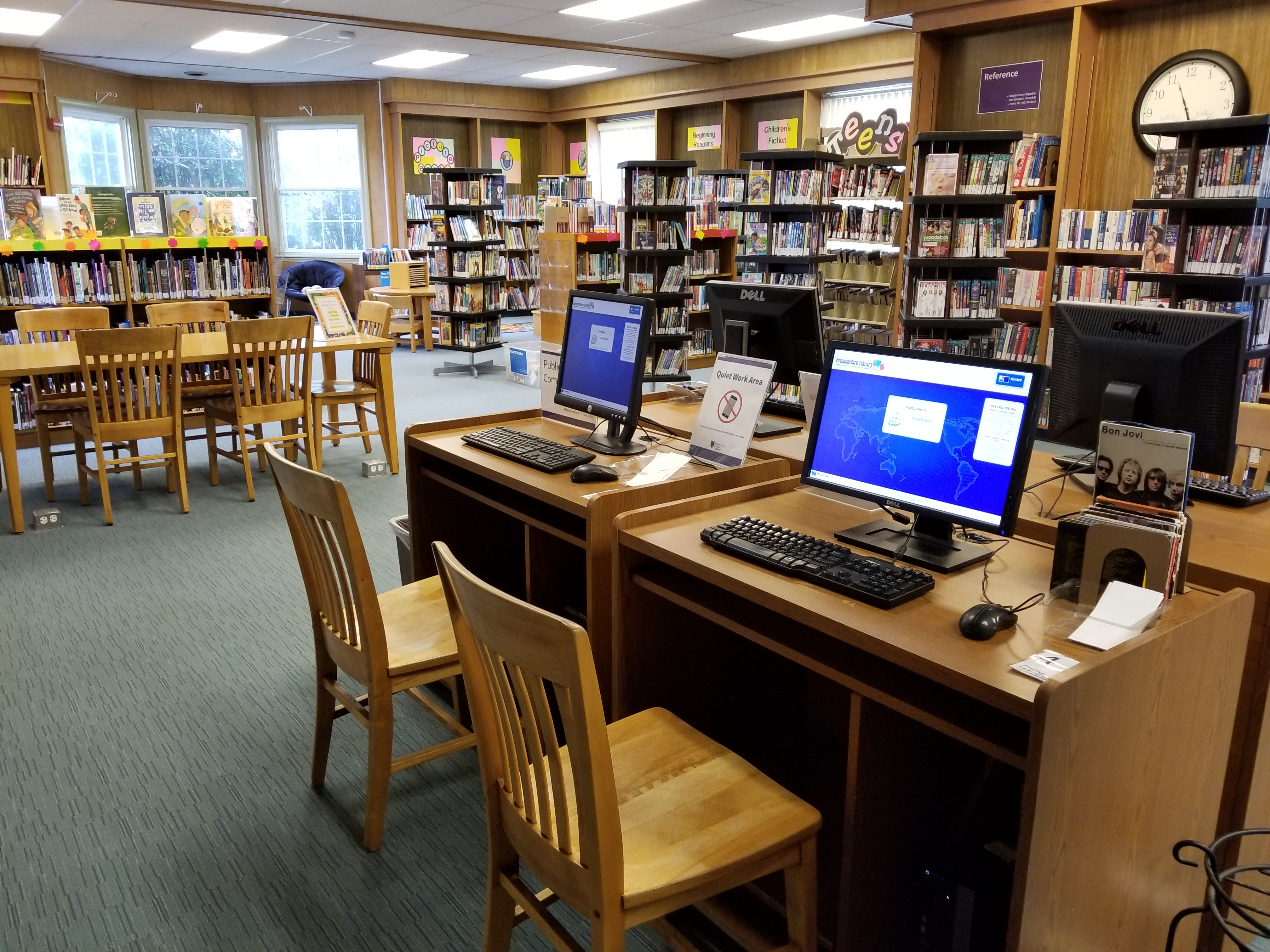 The Knightsville Branch was renovated in 2017, receiving new carpeting and furniture.